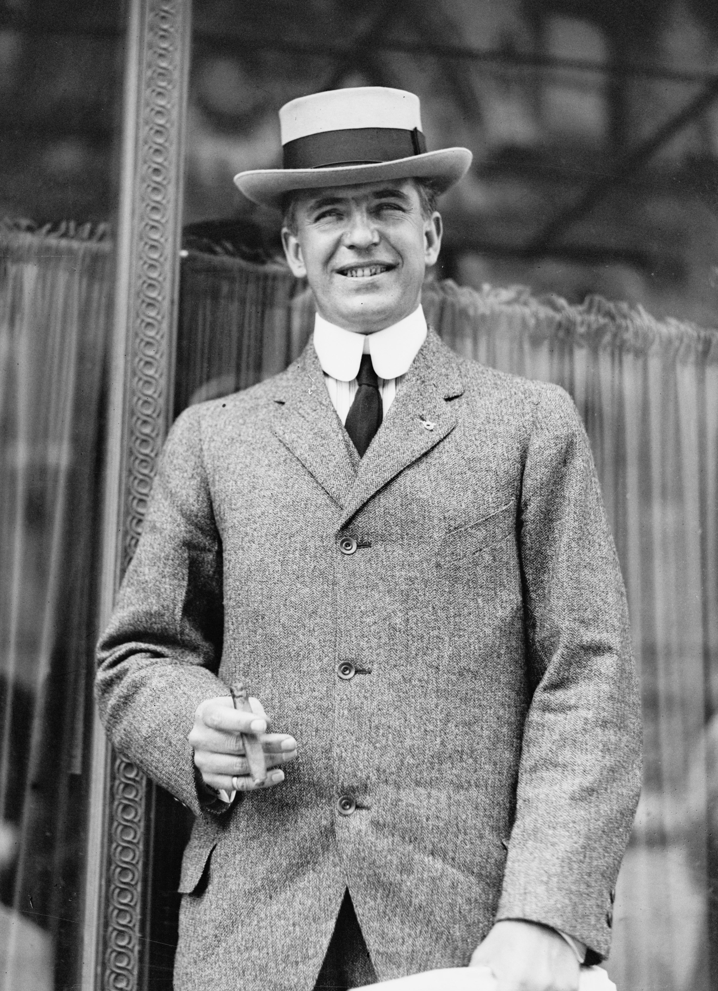 Title: Theodore A. Bell Abstract/medium: 1 negative : glass ; 5 x 7 in. or smaller.